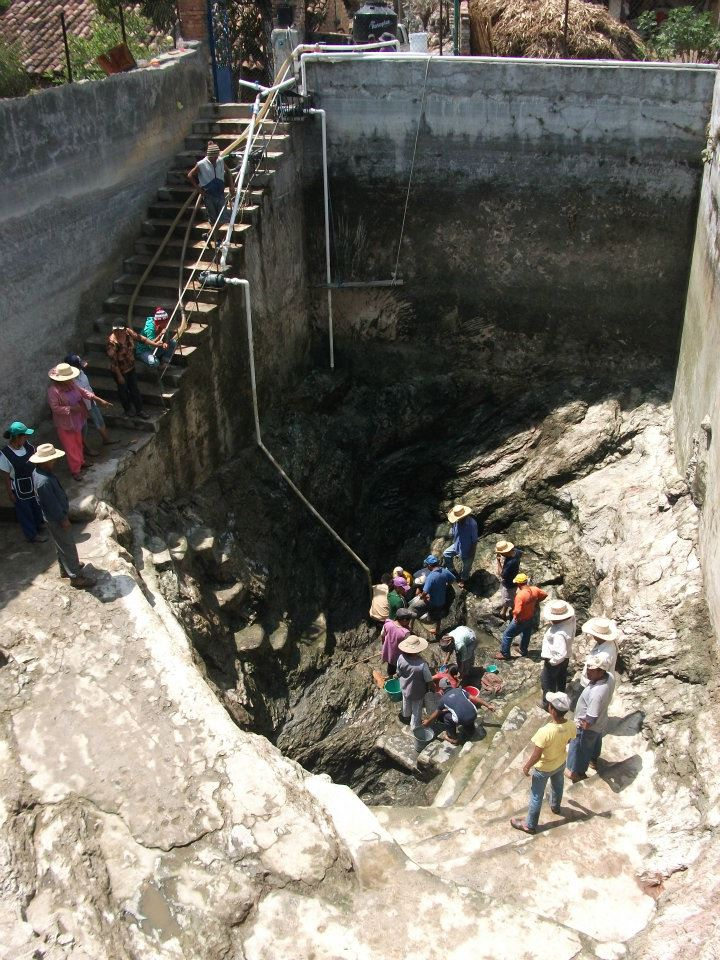 pila de huayapa de Chilacachapa Gro.